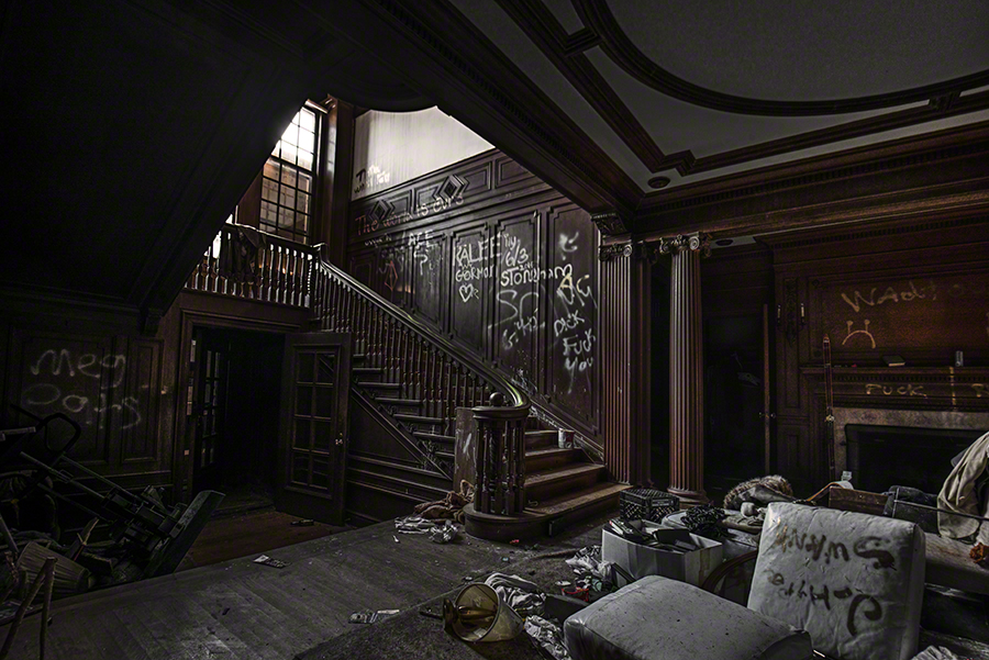 Image of the house at 13 Mansion Road known as The Charles Winship House